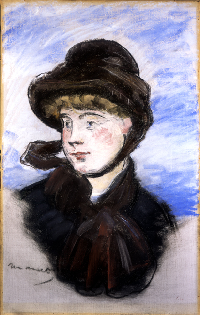 Girl in Brown Hat (Parisian)